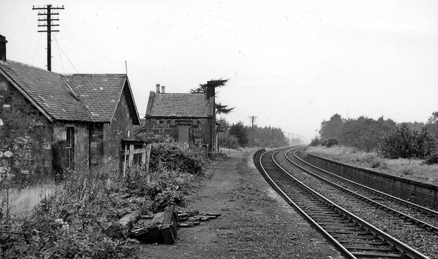 Blairadam Station (remains). View NNW, towards Kinross and Perth; ex-NBR Edinburgh - Perth main line. Station closed 22/9/30 to passengers (23/3/64 for goods). Main line closed north of Cowdenbeath 4/1/70 - and partly incorporated in M9 Motorway. Blairadam was between Kinross and Kelty